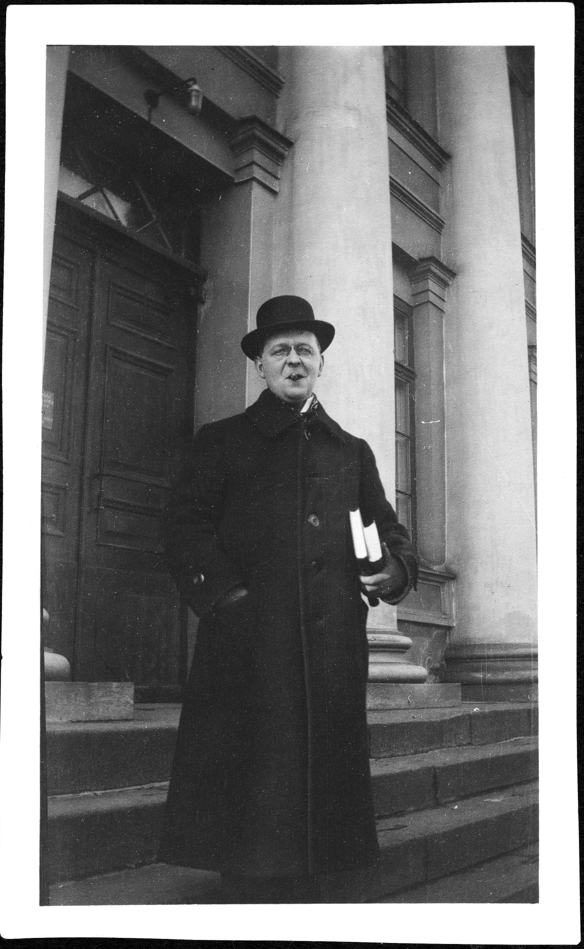 Photograph of the Finnish literature scholar Olaf Homén at the doorsteps of the library of Helsinki University.